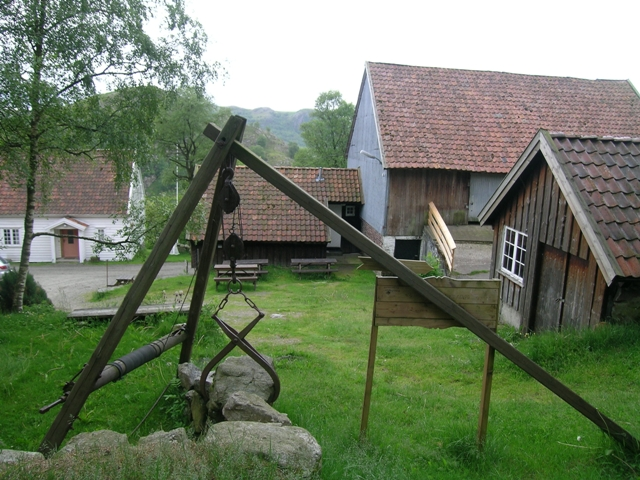 Limagarden